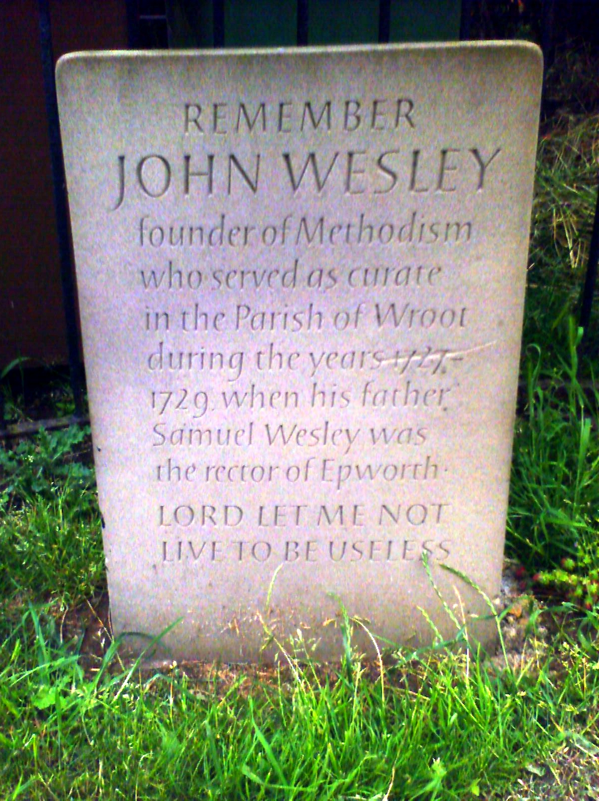 Remember John Wesley, Wroot. Photo by E Asterion u talking to me?